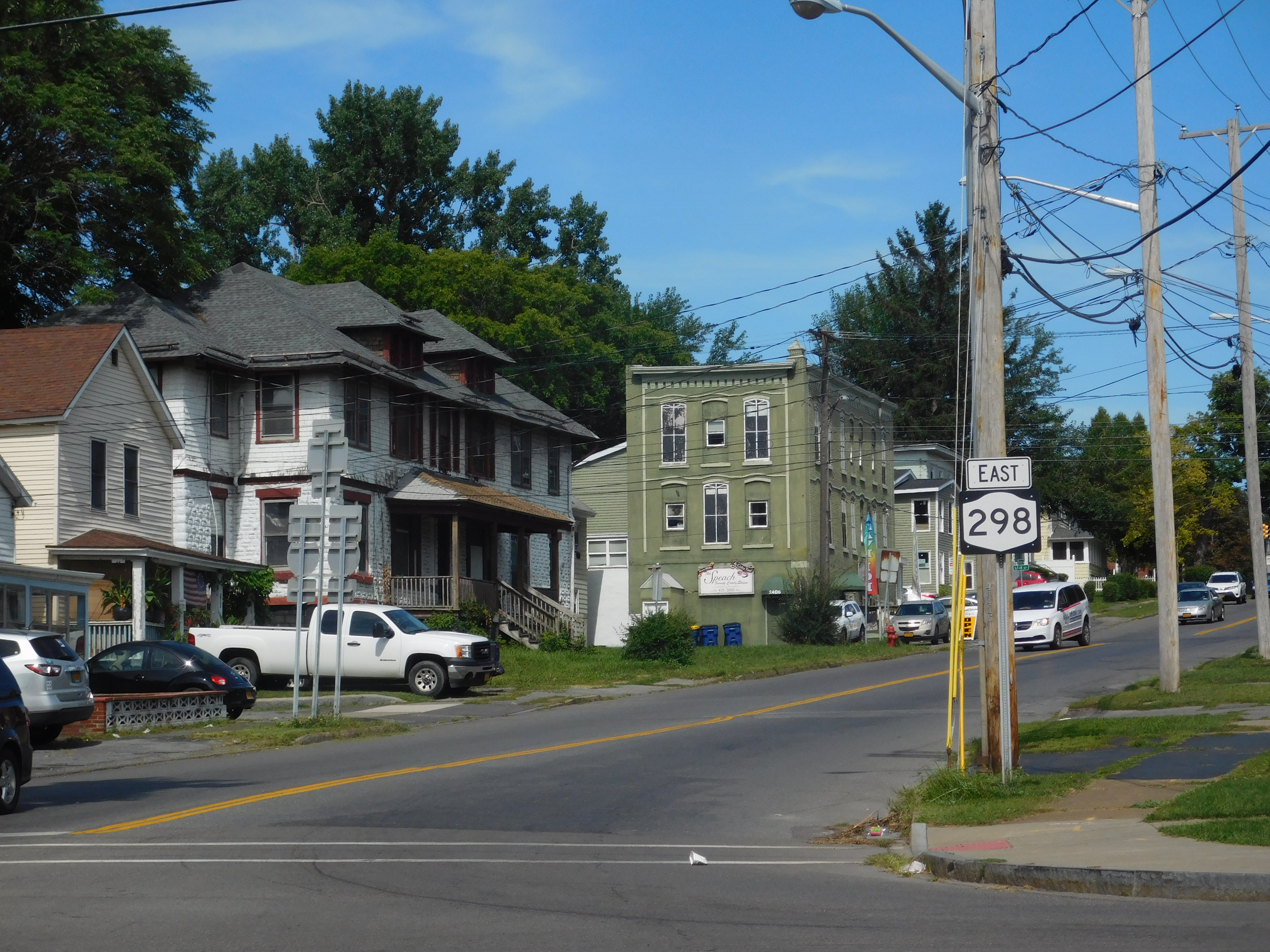 New York State Route 298 in Syracuse, New York.